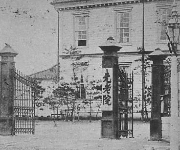 Chamber of Elders